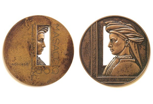 Masaccio 600, bronze, cast, 11 cm, 2002